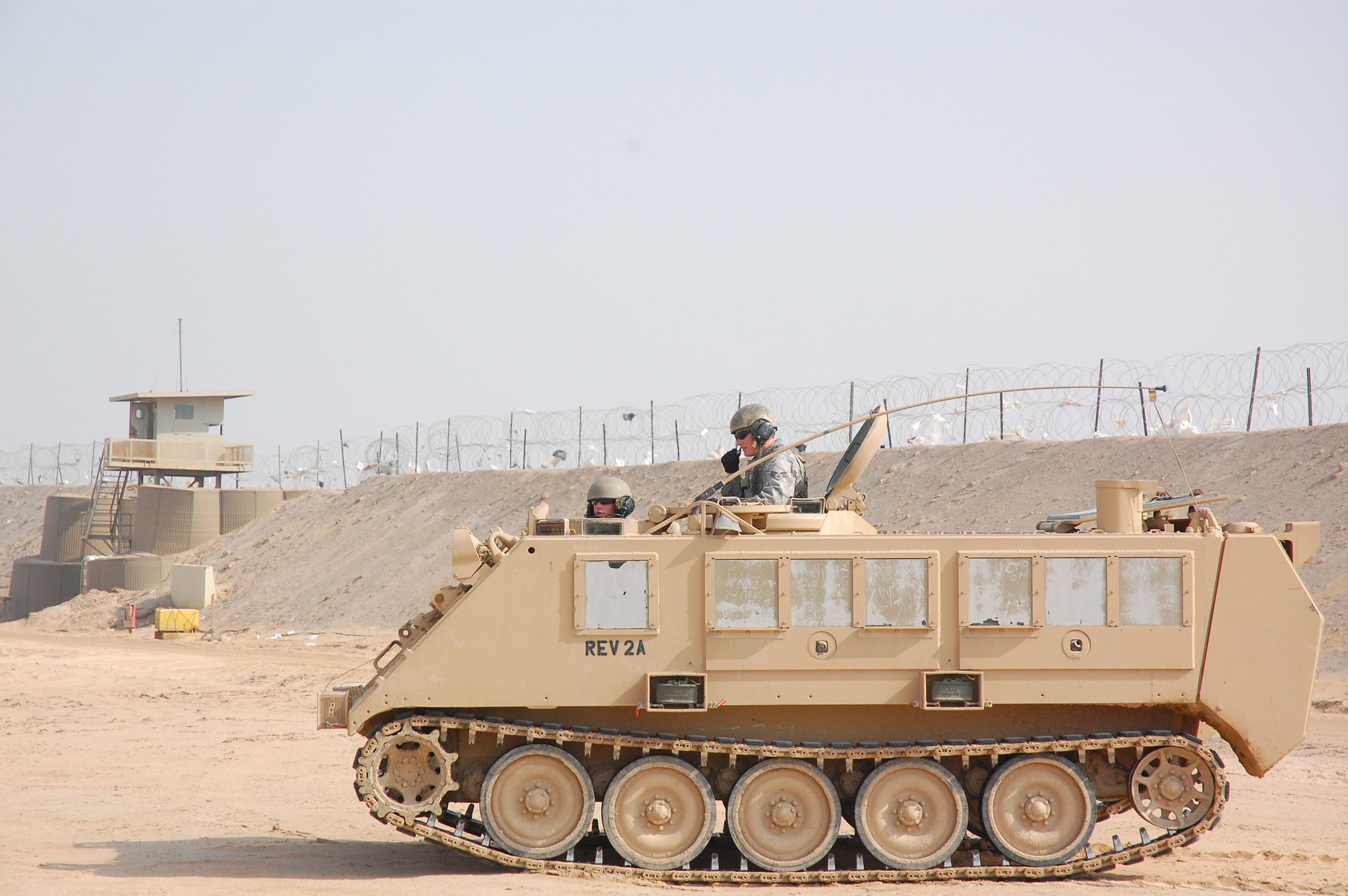 A Senior Airman (standing) and an Airman 1st Class patrol in an M-113 Armored Personnel Carrier at the Theater Internment Facility at Camp Bucca, Iraq on February 10, 2008. The Airmen are deployed from Robins Air Force Base, Ga., and are assigned to the 886th Expeditionary Security Forces Squadron's quick response force. The QRF responds to issues within the TIF in which a show of force or escalation of force is required beyond the capabilities for the TIF's guard force. Note the M5 Modular Crowd Control Munitions housed in casing similar to claymore mines mounted on the side of the vehicle.